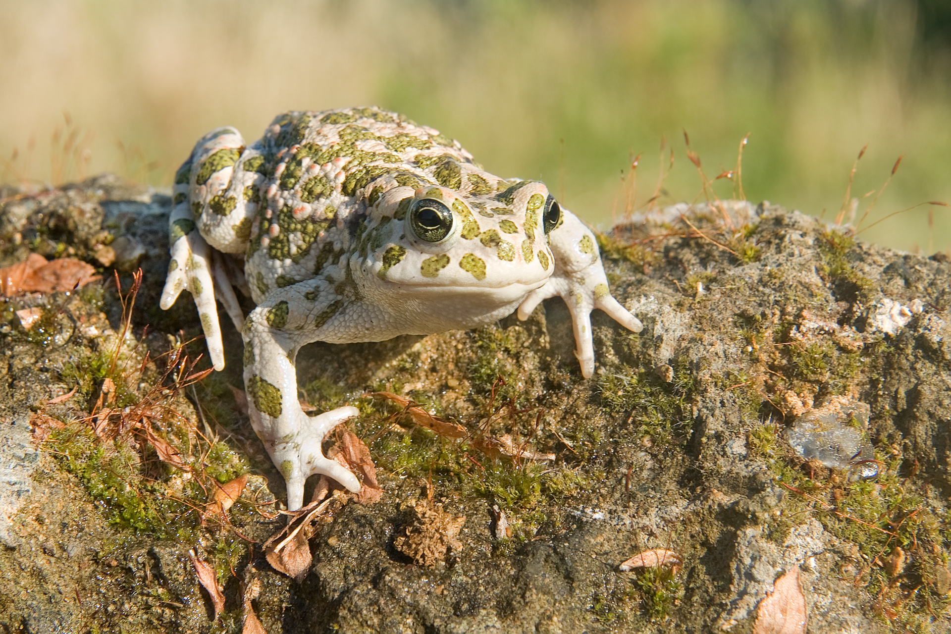 The European green toad is a toad found in mainland Europe, Asia, and Northern Africa.